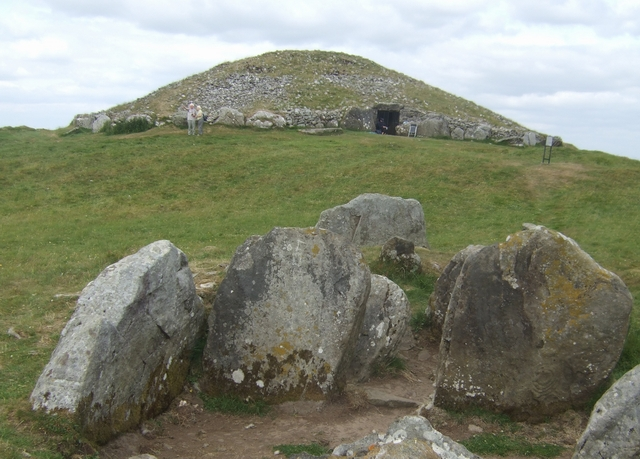 Loughcrew cairns on Slieve na Calliagh